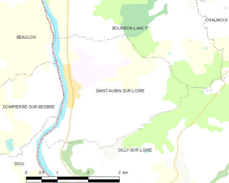 Map of French municipality